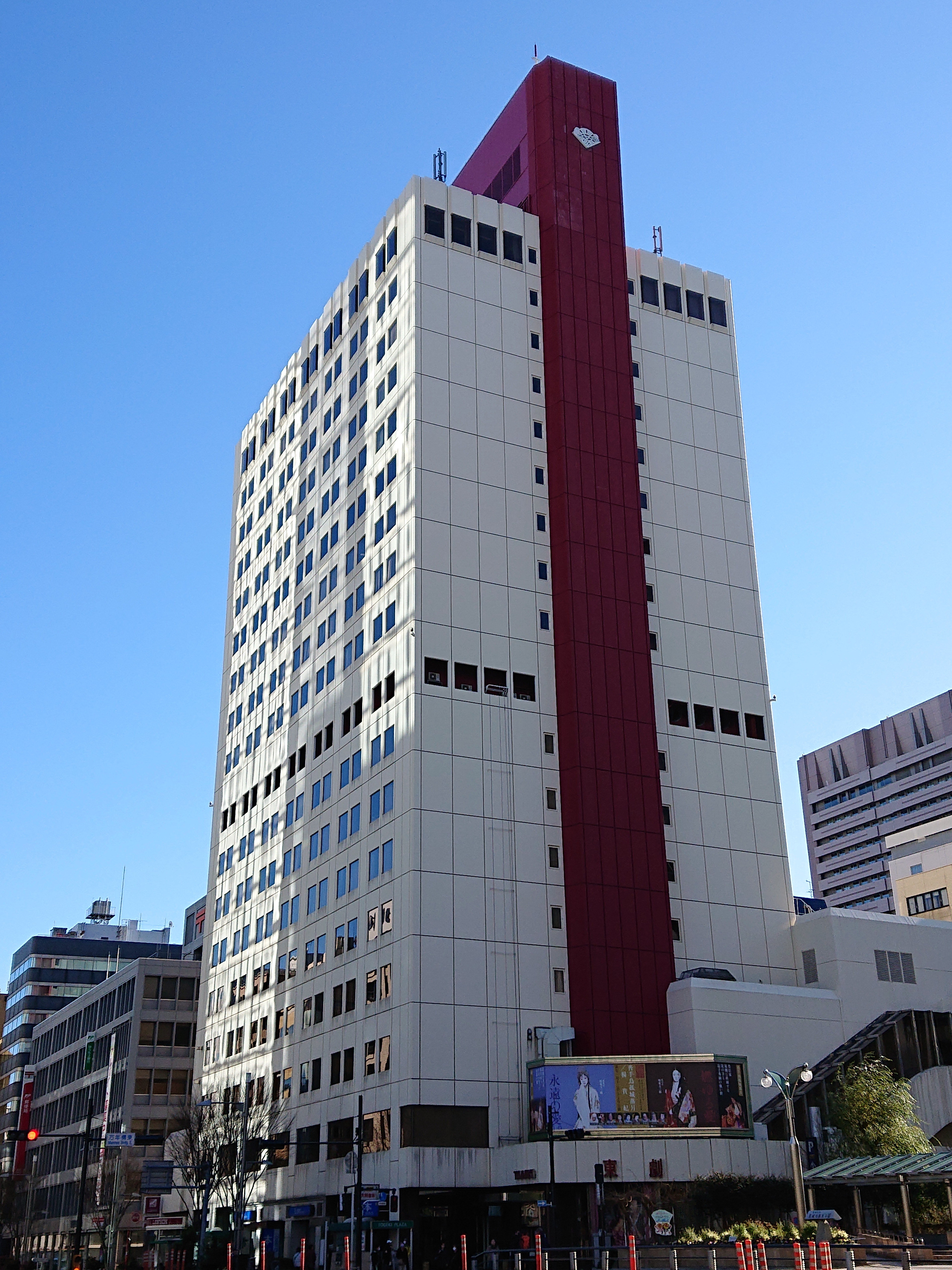 Togeki Building (東劇ビル), located at 4-1-1 Tsukiji, Chuo, Tokyo, Japan